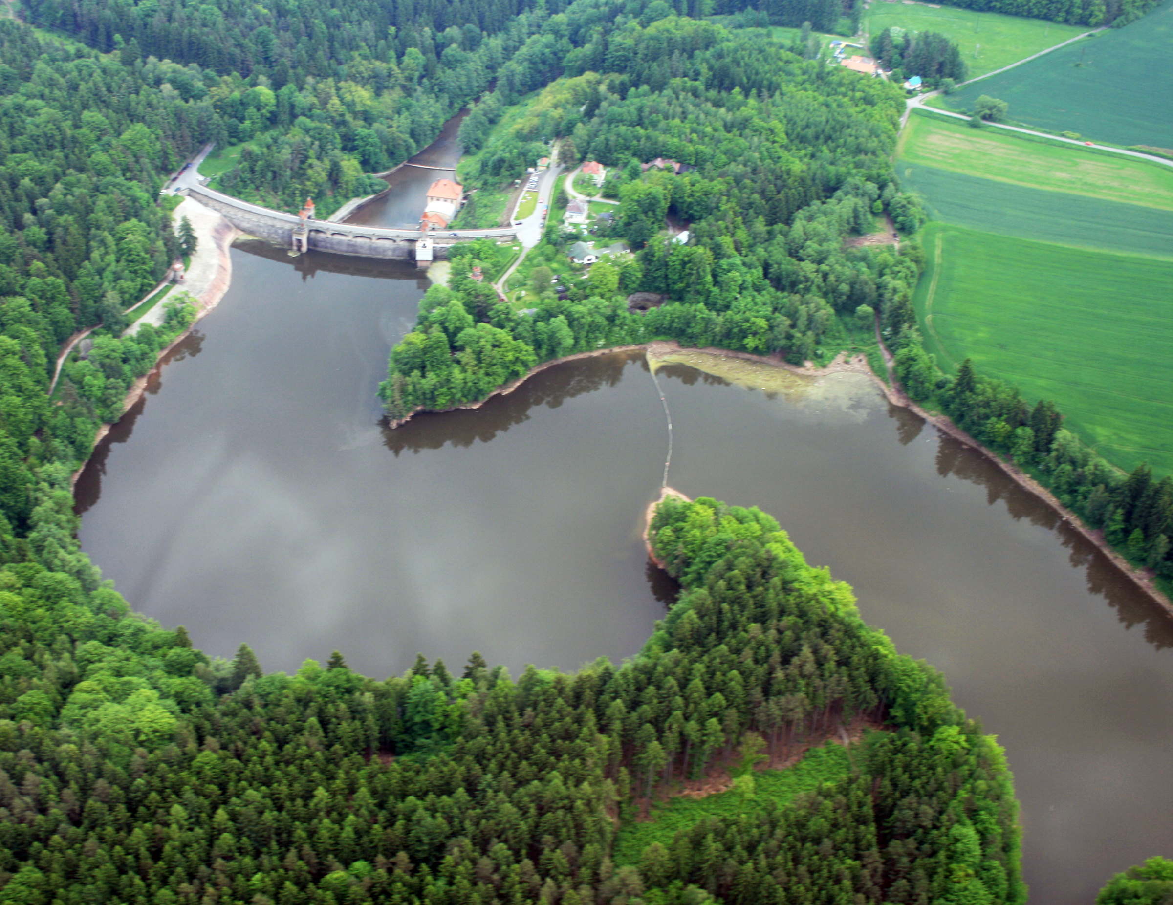 Reservoir Les Království on Elbe river from air, eastern Bohemia, Czech Republic